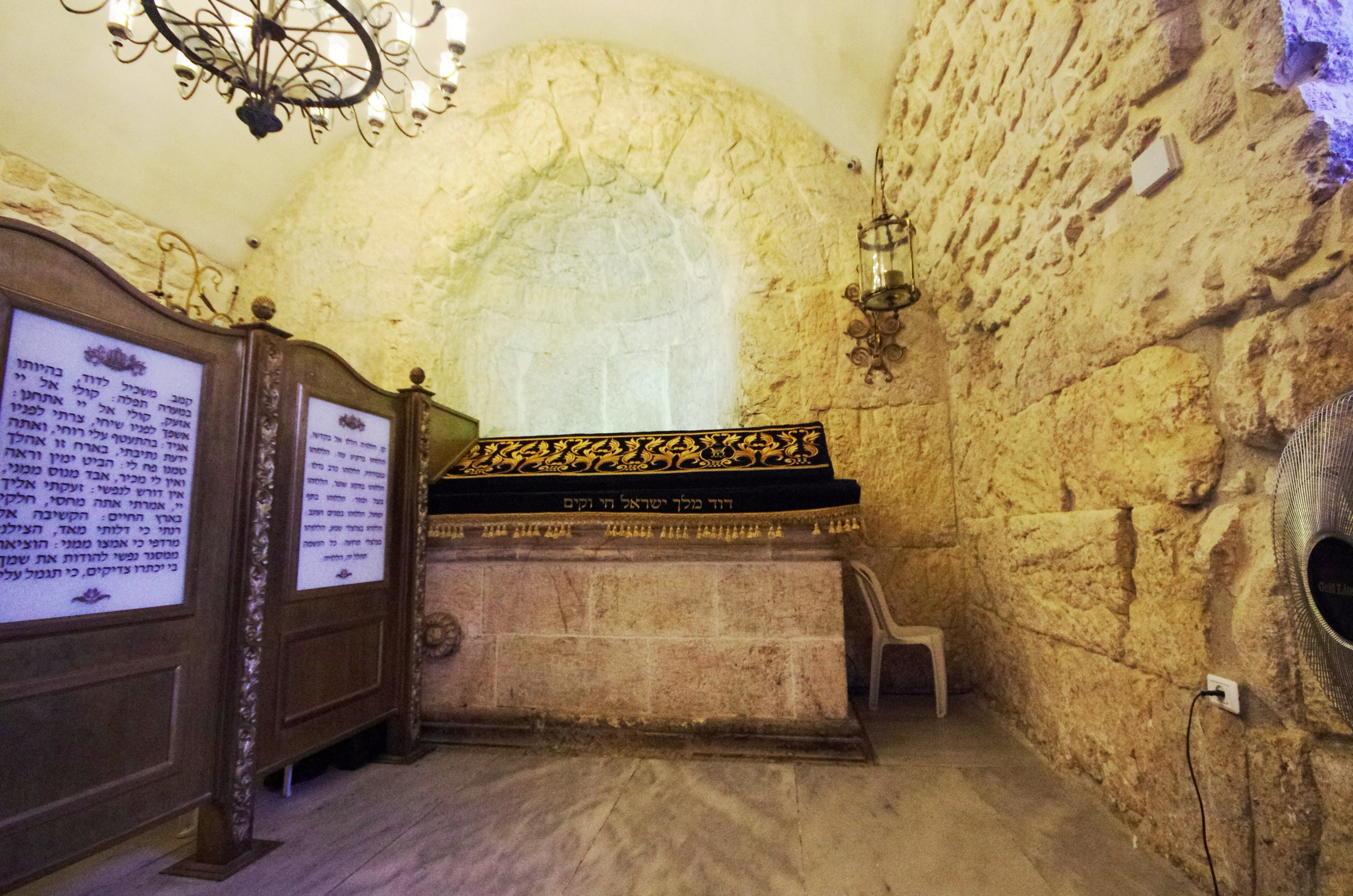 The cenotaph of David Tomb at Zion; Jerusalem